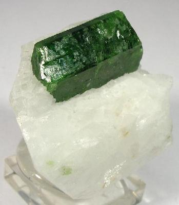 Pargasite Locality: Ganesh, Hunza Valley, Gilgit District, Northern Areas, Pakistan (Locality at ) Size: thumbnail, 2 x 1.8 x 1.7 cm Pargasite Superb single crystal of of Pargasite, 1.5 cm long, sitting beautifully on a matrix of white marble. The deep green color is fantastic, as it the luster and well-defined crystal form. Gram for gram, this doubly-terminated crystal is by far the best Pargasite I have ever come across for its sharpness and electric color.